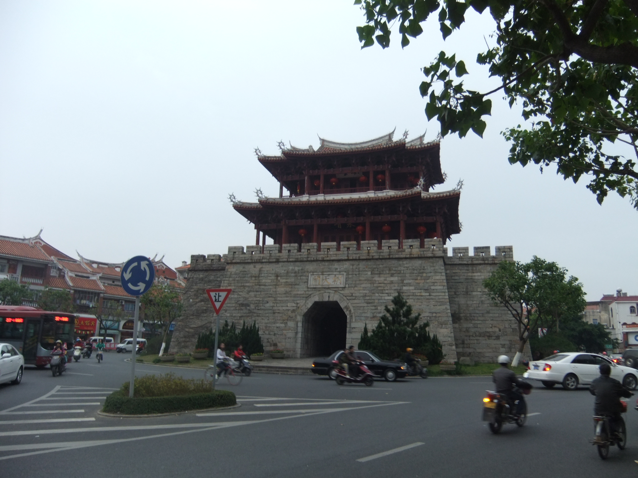 The restored Chaotian Gate of Quanzhou. Now the gate sits in the middle of a traffic circle at Beimen Jie, Chengbei Lu, Quanshan Lu, and Wensheng Jie.